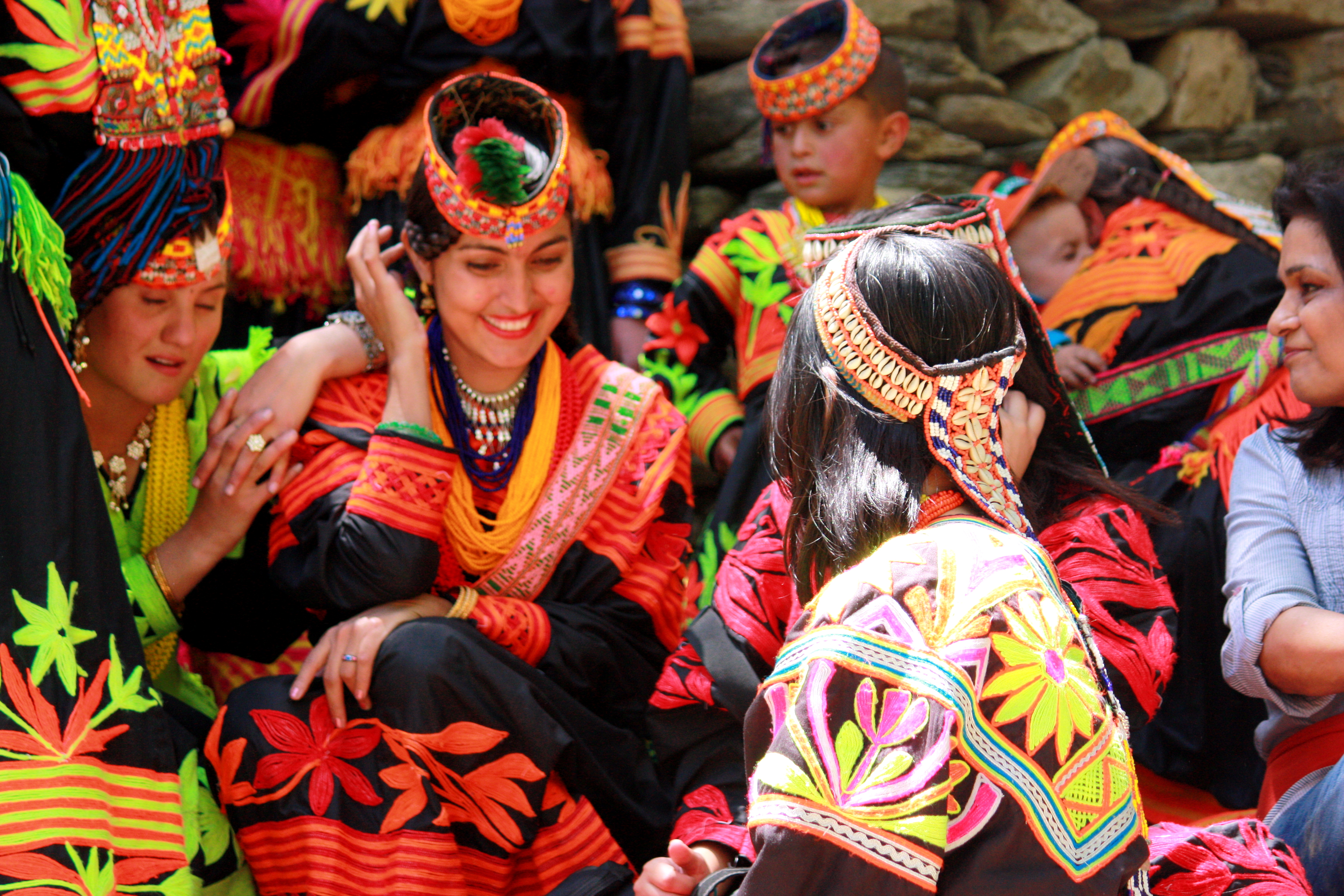 Kalash women wearing colourful traditional clothing.